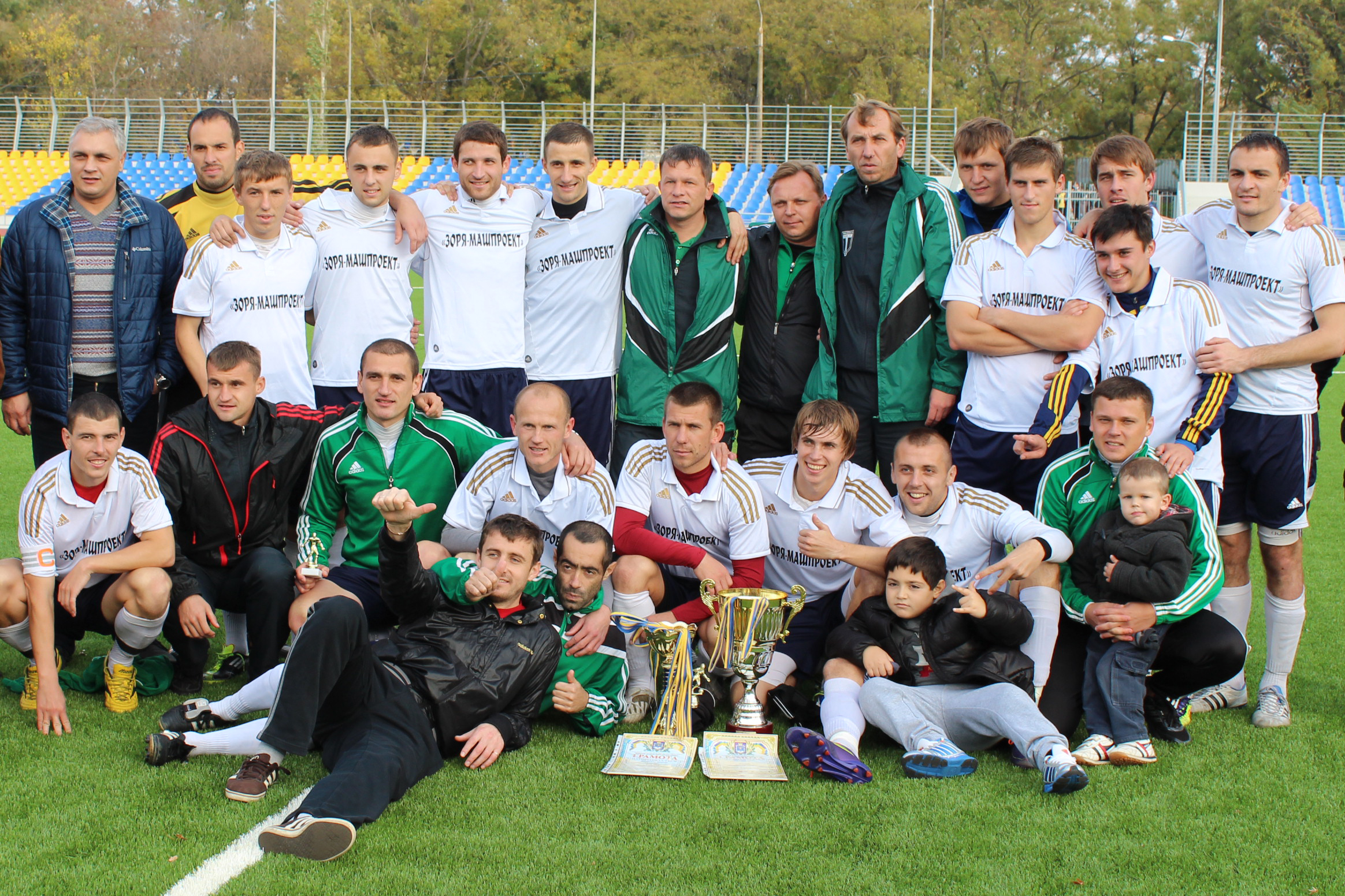 FC Torpedo Mykolaiv 2013-10-26